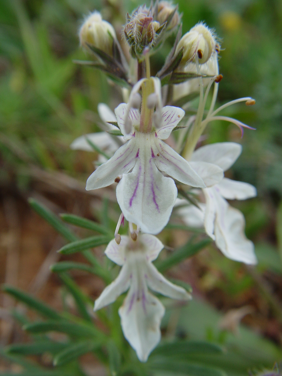 Name Teucrium pseudochamaepitys Family Lamiaceae Taken in Portugal (Algarve)